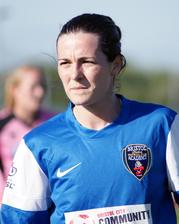 portrait of Natalia de Pablos whilst playing for Bristol Academy